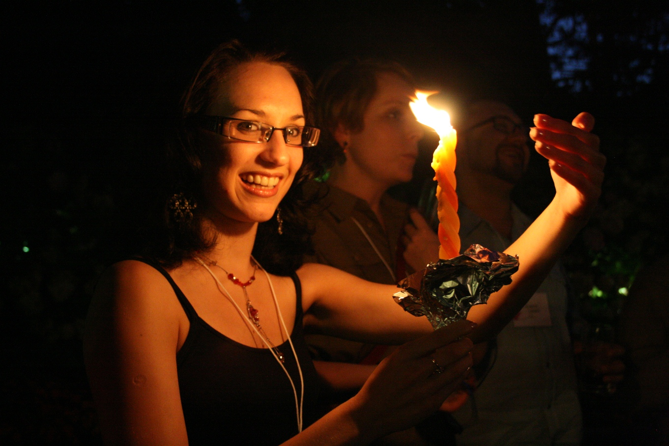 למוד ניו יורק